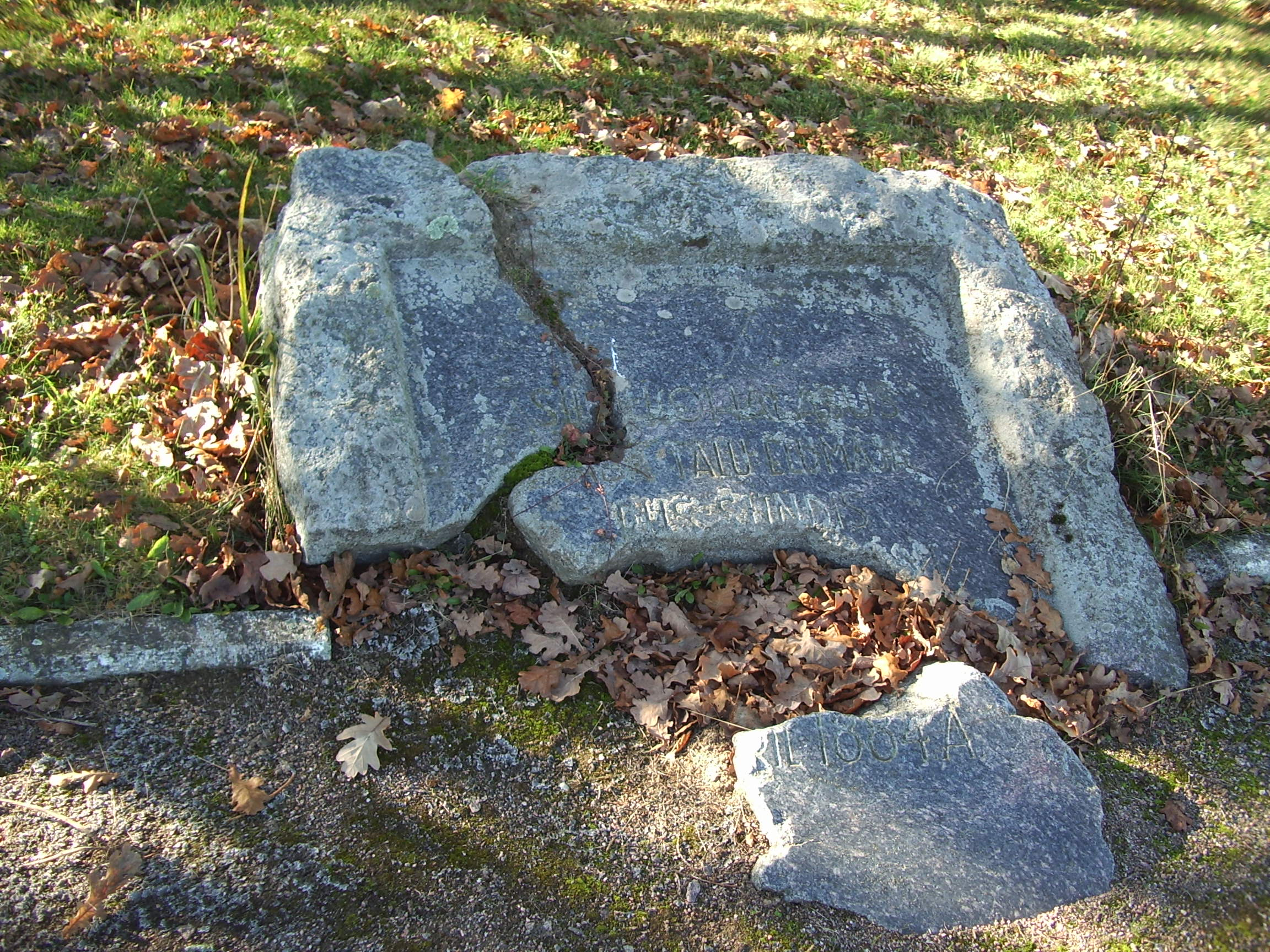 A memorial stone for Johan Laidoner. It was ruined on September 5th, 1940.